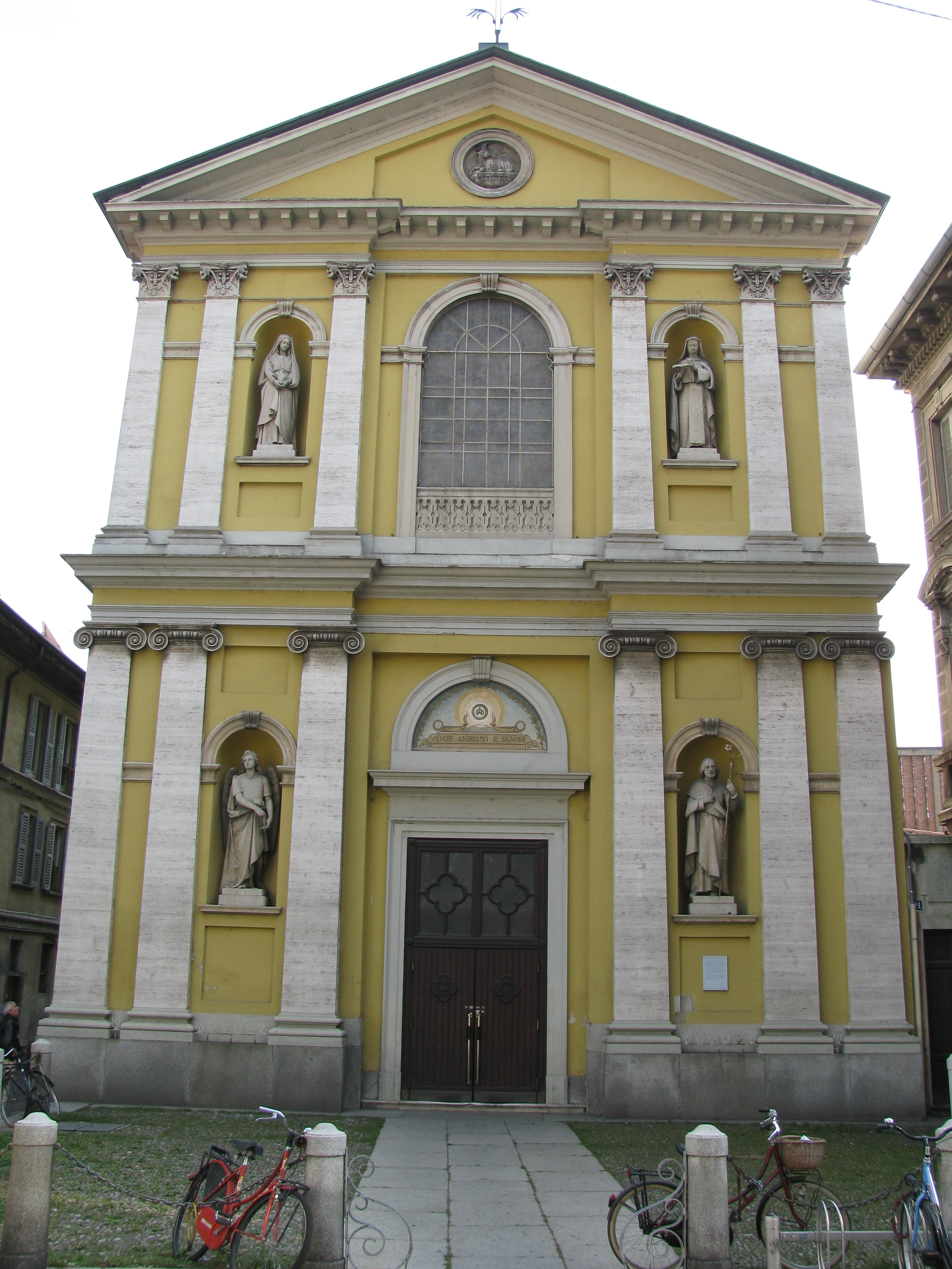 Church of Santa Maria Maddalena e Santa Teresa d'Avila [1] in Monza (ITALY)